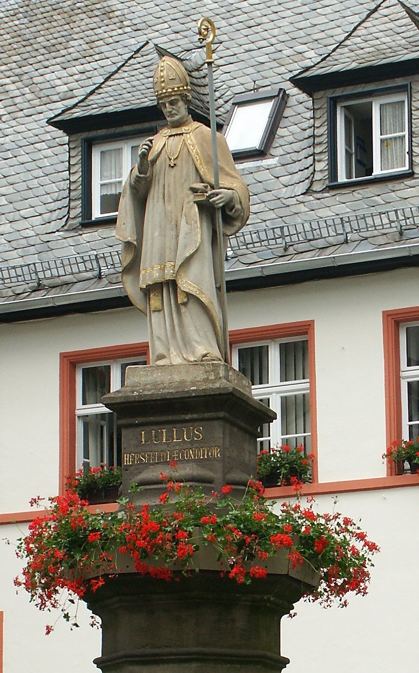 Statue of Saint Lullus in Bad Hersfeld. He is the first permanent archbishop of Mainz, and first abbot of the Benedictine Hersfeld Abbey.